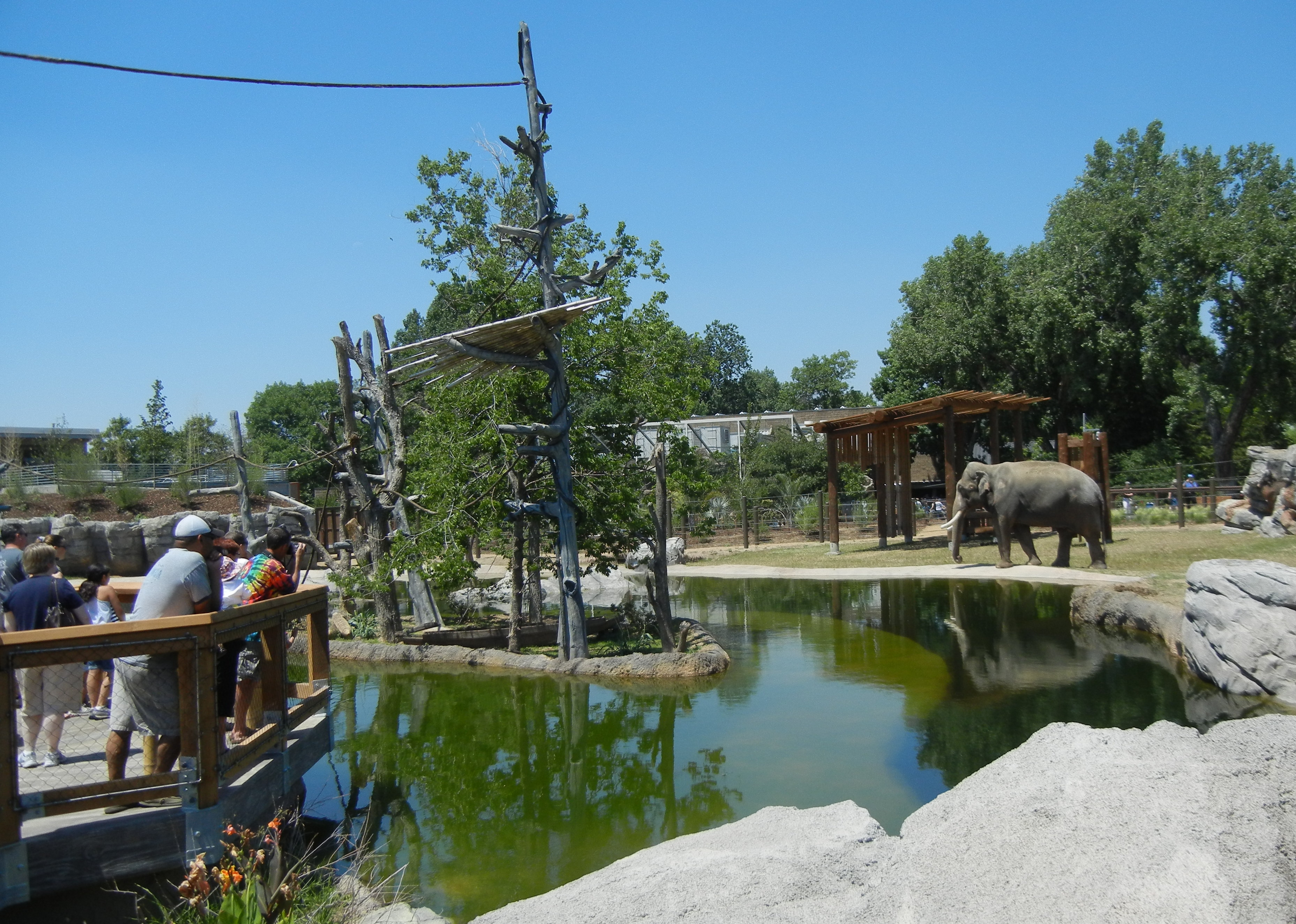 One of the gibbon islands, showing boardwalk on left, and elephant on the other side of the pond, and the swinging "vine going over the boardwalk.